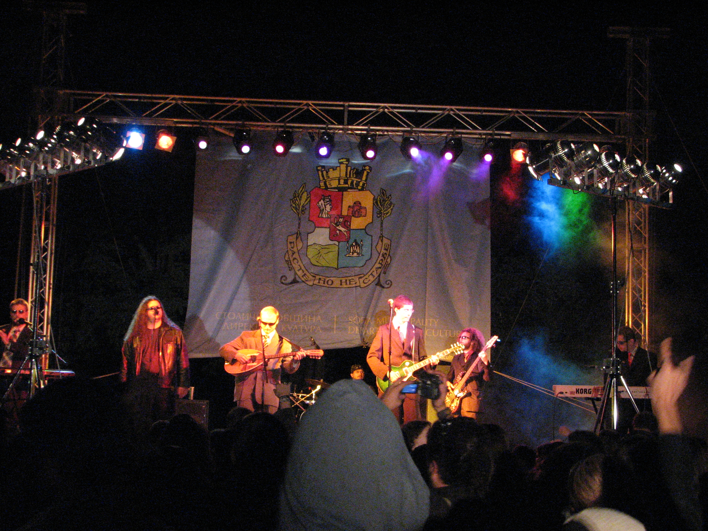 Balkandji on a concert for the annual "Gradat i az" (Bulgarian: Градът и аз, meaning "The City and Me") festival in Sofia, Bulgaria. From left to right, Nikolay Barovsky playing kaval, Spas Dimitrov, Valentin Monovski playing tambura, Kalin Hristov (Katsko) on drums, Kiril Yanev on guitar, Vladimir Leviev on bass and Iavor Pachovski on keyboards.